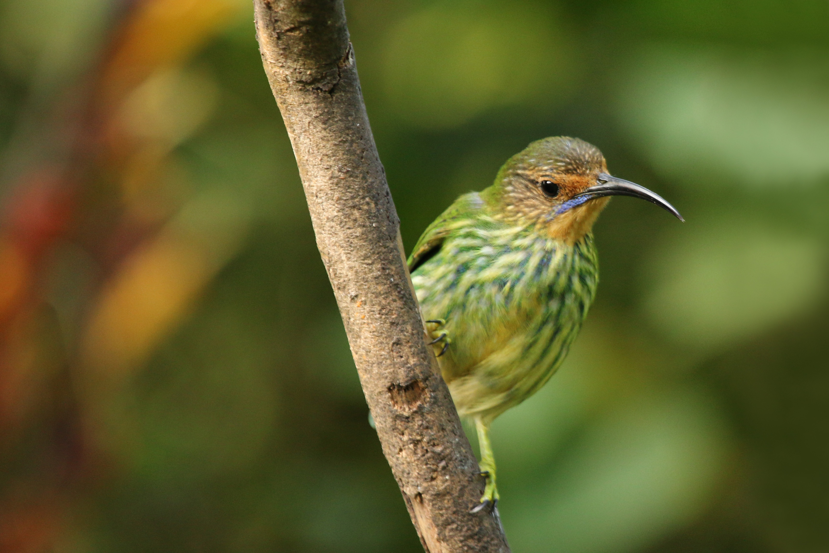 Purple honey creeper (Cyanerpes caeruleus longirostris) female, Trinidad